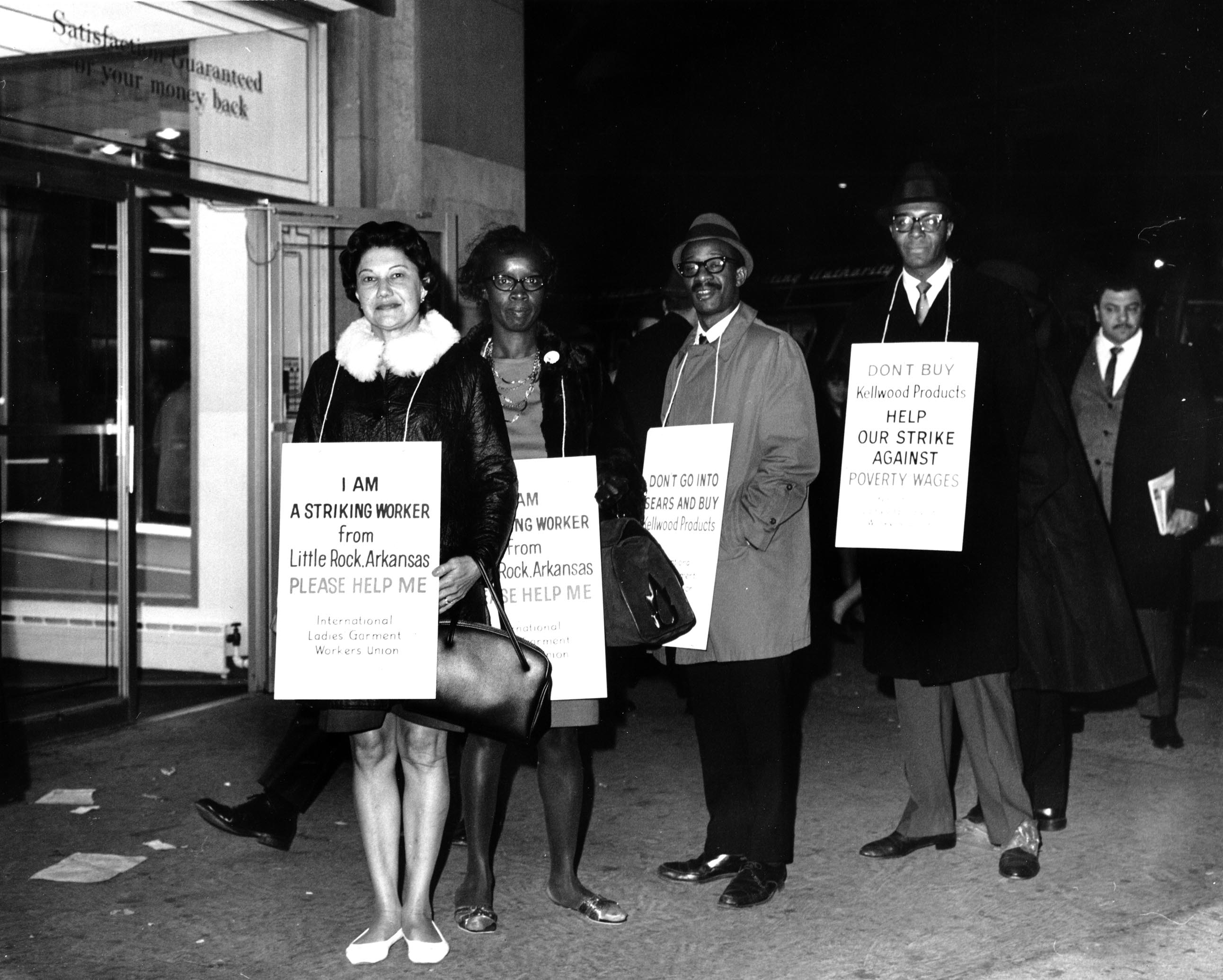 Title: African American and Hispanic American workers on strike against Kellwood, wearing placards that encourage support for better wages Date: Unknown. Probably from the 1966-1967 ILGWU Kellwood strike ( Photographer: Unknown Photo ID: 5780PB35F12C Collection: International Ladies Garment Workers Union Photographs (1885-1985) Repository: The Kheel Center for Labor-Management Documentation and Archives in the ILR School at Cornell University is the Catherwood Library unit that collects, preserves, and makes accessible special collections documenting the history of the workplace and labor relations. Notes: No additional information available. Copyright: The copyright status of this image is unknown. It may also be subject to third party rights of privacy or publicity. Images are being made available for purposes of private study, scholarship, and research. The Kheel Center would like to learn more about this image and hear from any copyright owners who are not properly identified so that we may make the necessary corrections. Tags: Kheel Center for Labor-Management Documentation and Archives,Cornell University Library,Picketing, Placards, Strikes, Wages, African Americans, Hispanic Americans